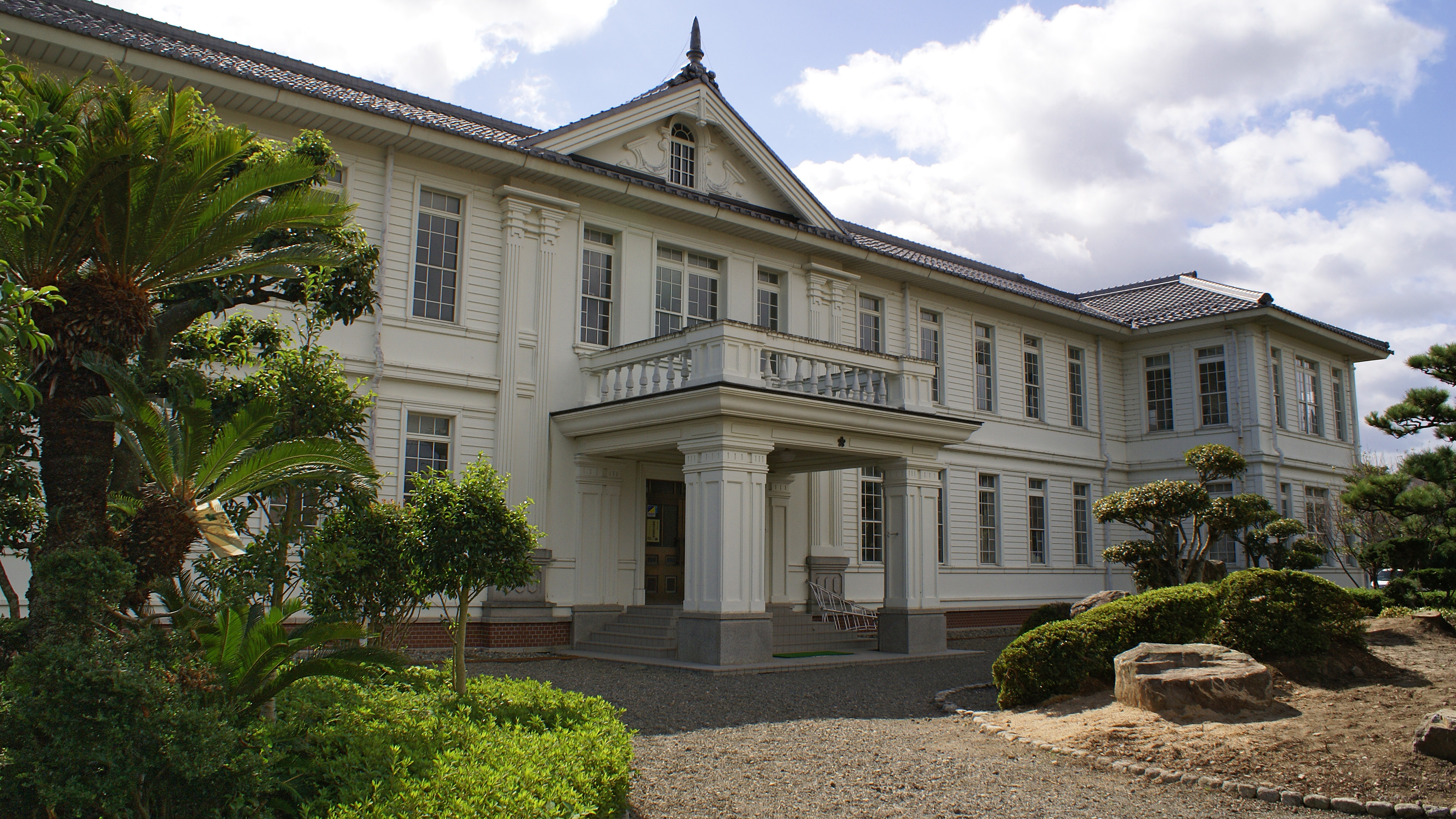 Omihachiman municipal hachiman elementary school in Omihachiman, Shiga, Japan